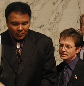 Muhammad Ali and Michael J. Fox testified before a Senate Committee today about the importance of funding to combat Parkinson's Disease.